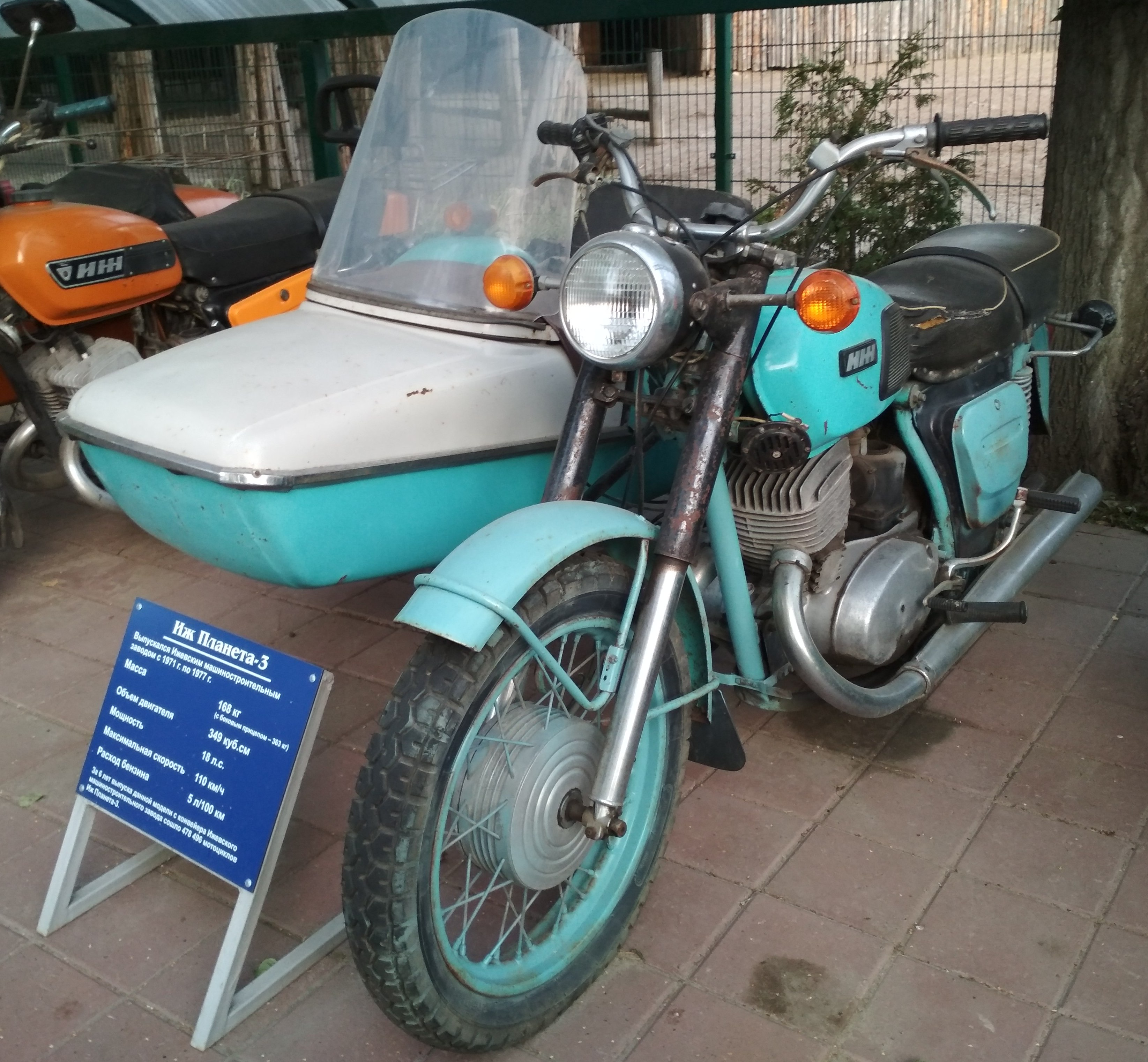 Motorcycle IZH Planet 3 in the collection of Nizhny Novgorod zoo "Limpopo"